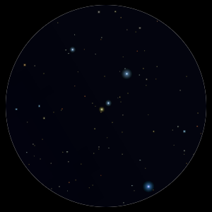 Omega Scorpii